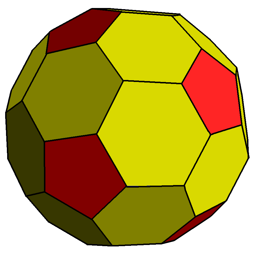 Image of Truncated rhombic triacontahedron